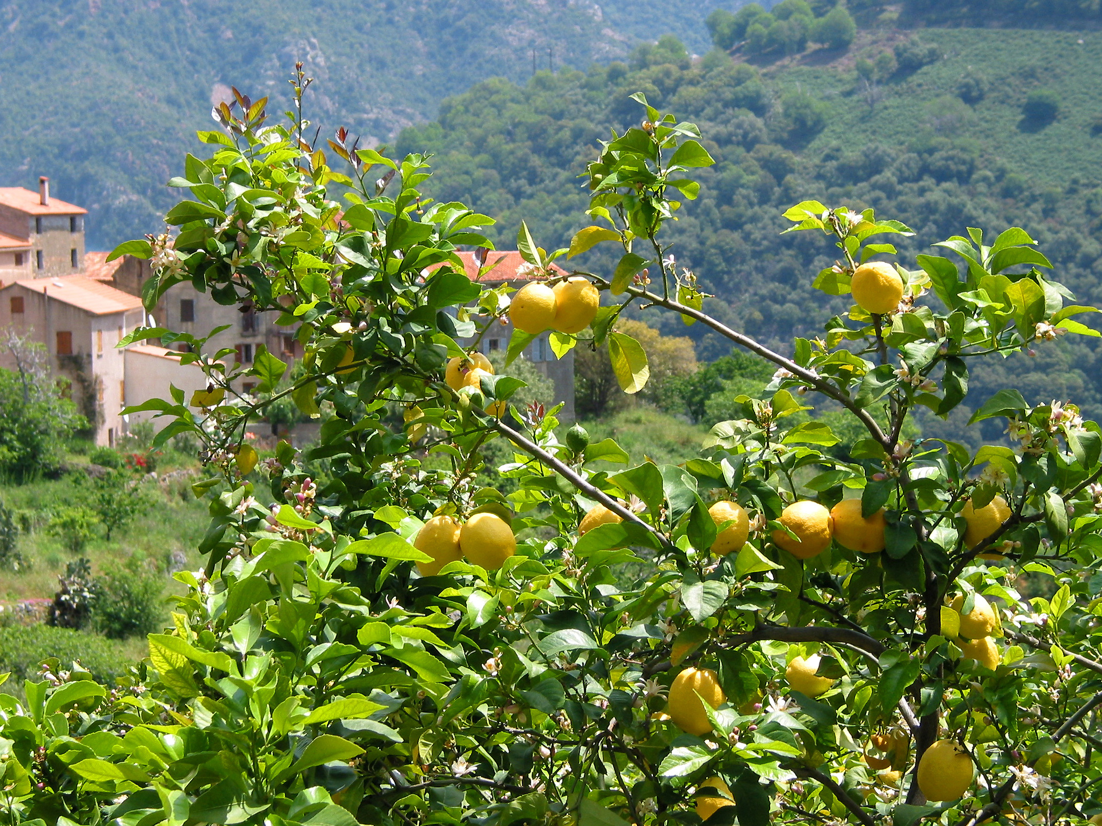 Lemon tree (Citrus x limon) - Habit: Ota ( Corse-du-Sud) - France. Corsu: Limonu (arburu) (Citrus x limon) - Ota ( Corsica-Sutanna) - Francia. Walon: Citronî (Citrus x limon) - Abitat: Ota (Corse-do-Sud) - France.